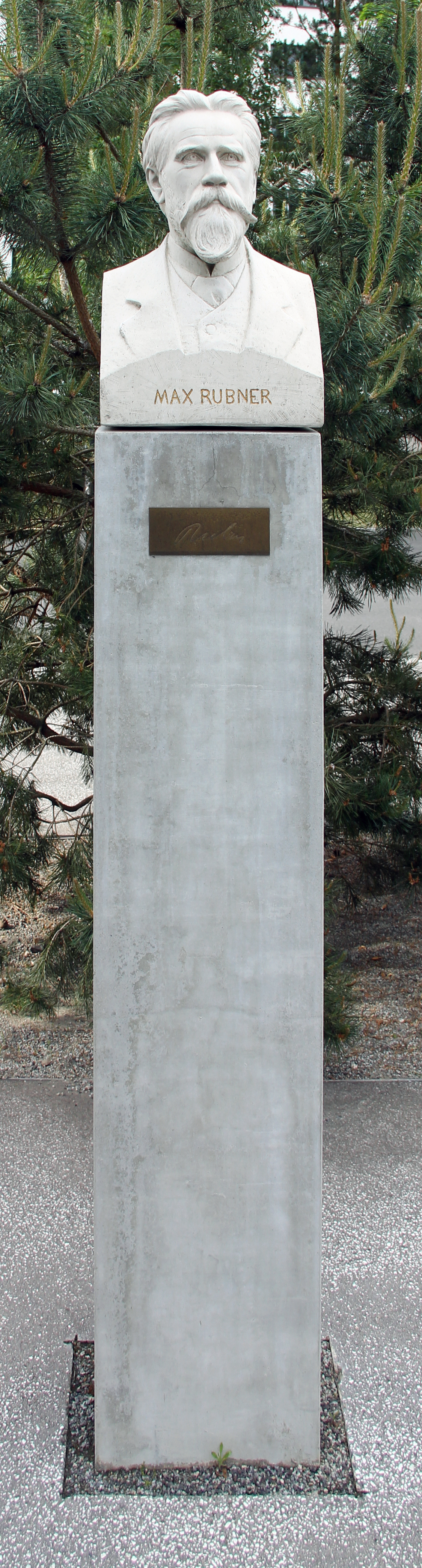 Bust, Max Rubner by Fritz Schaper, 1910, Robert-Rössle-Straße 10, Berlin-Buch, Germany